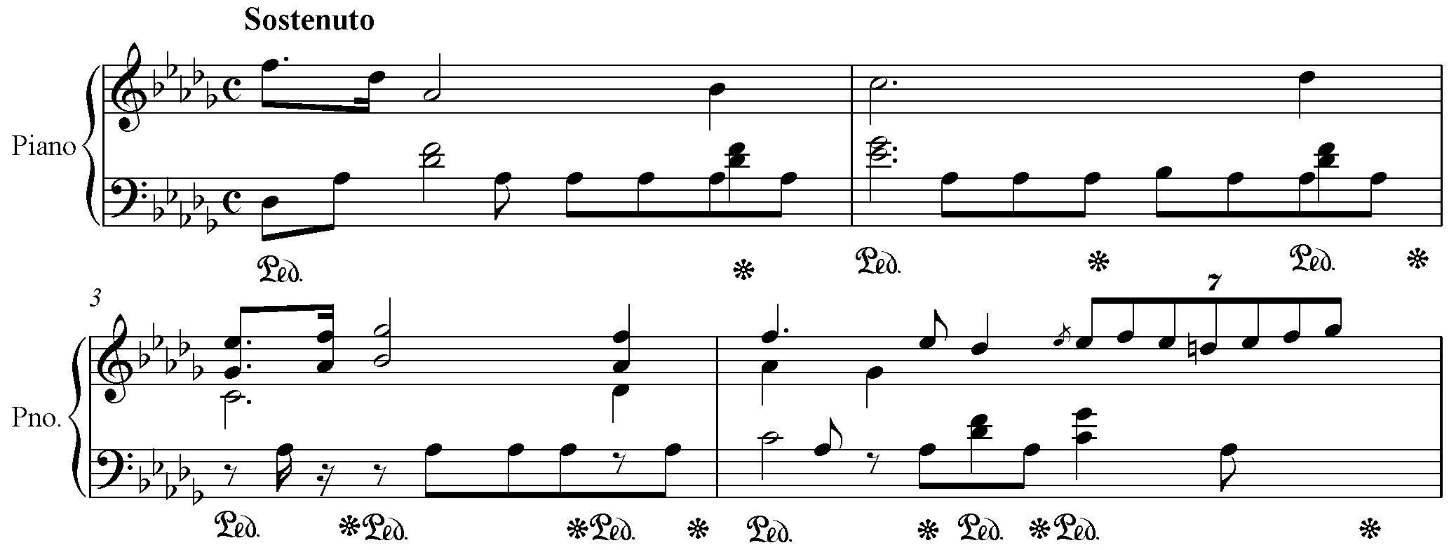 4 first bars of Chopins prelude 15 op. 28